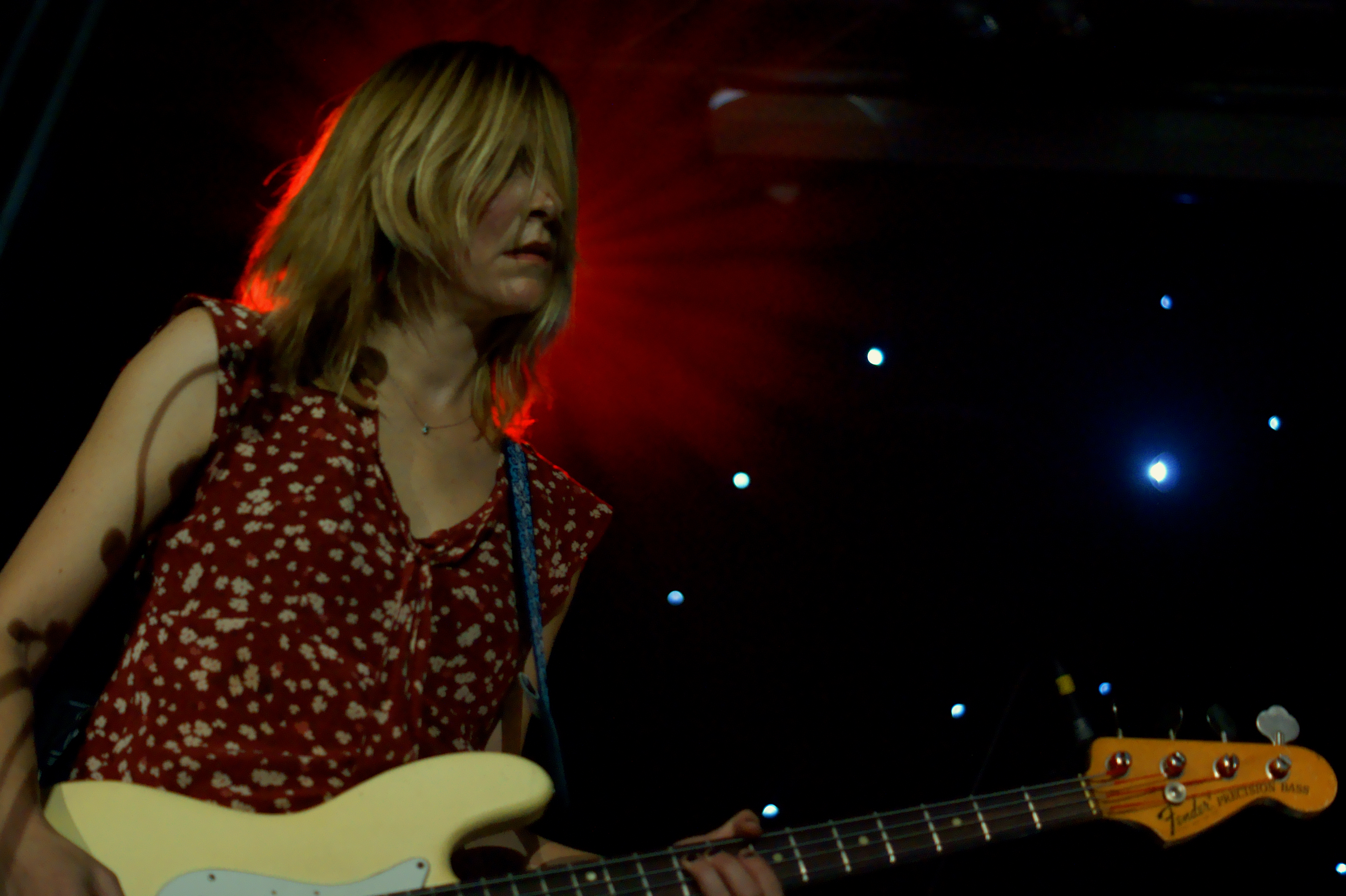 Joanna Bolme of Stephen Malkmus & the Jickes performing at the Constellations Festival, Leeds, on Saturday the 12th of November 2011